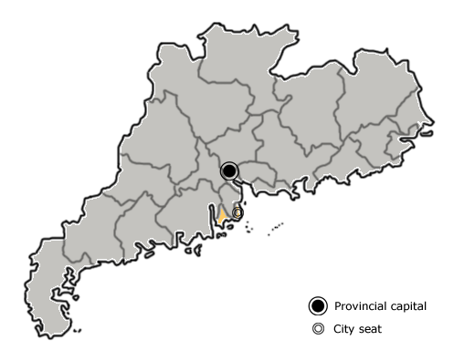 The prefecture-level city of Jieyang is highlighted on this map of Guangdong province, People's Republic of China.